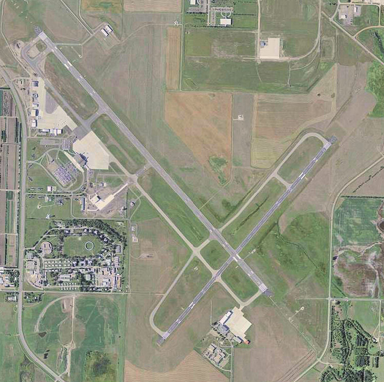 USGS digital orthophoto of Bismarck Municipal Airport in North Dakota